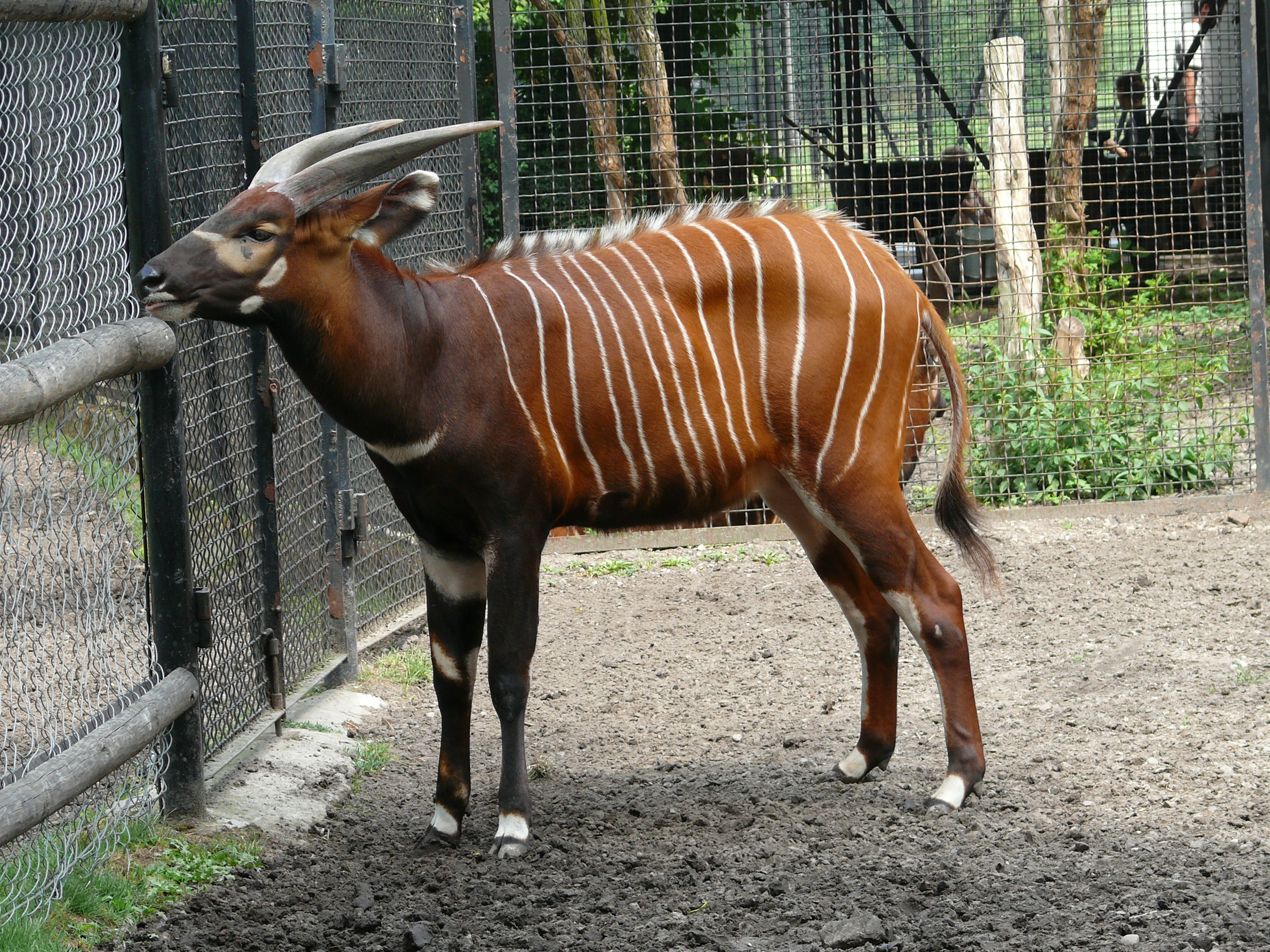 Tragelaphus eurycerus in Warsaw Zoological Garden